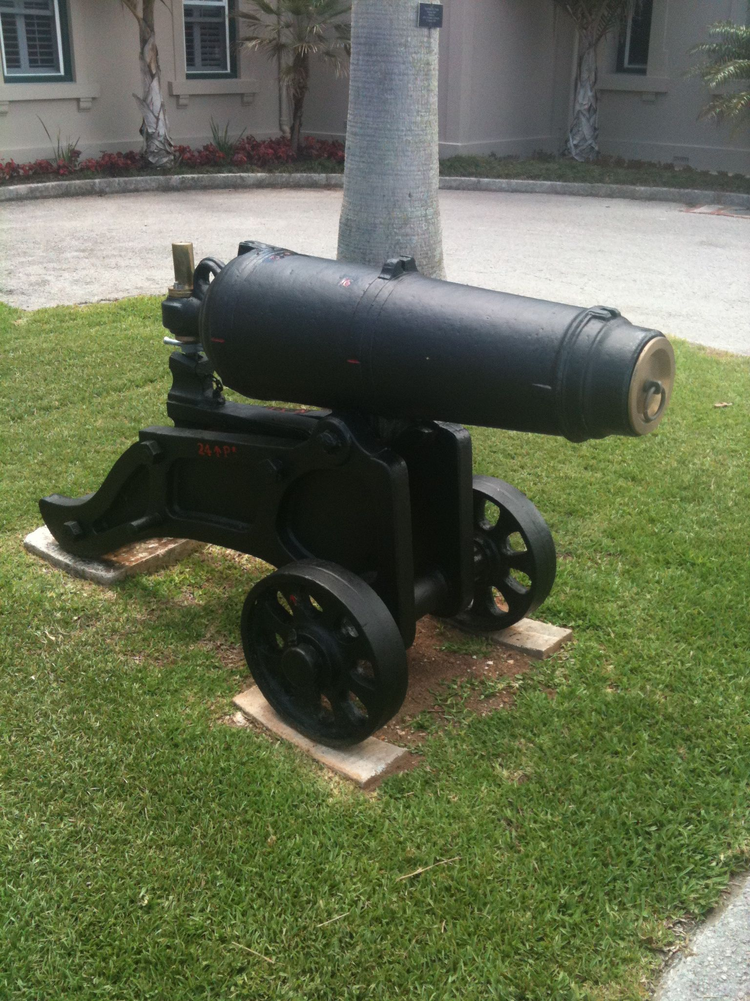 Carronade mounted on a garrison carriage at Government House, Bermuda